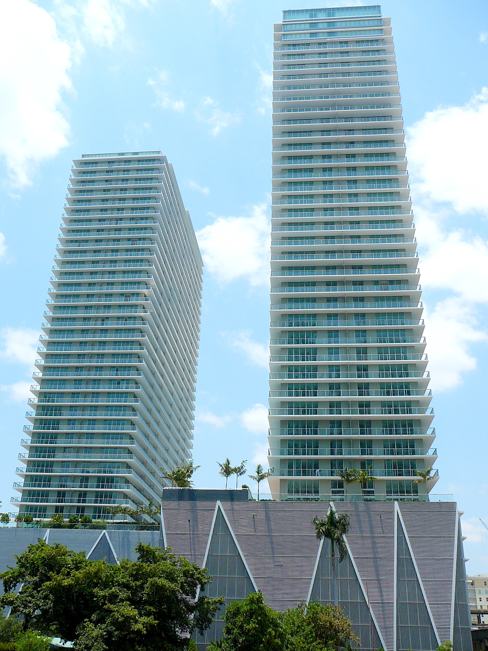 Digital photo taken by Marc Averette. The Axis at Brickell Village towers in downtown Miami, east view 5/14/2008